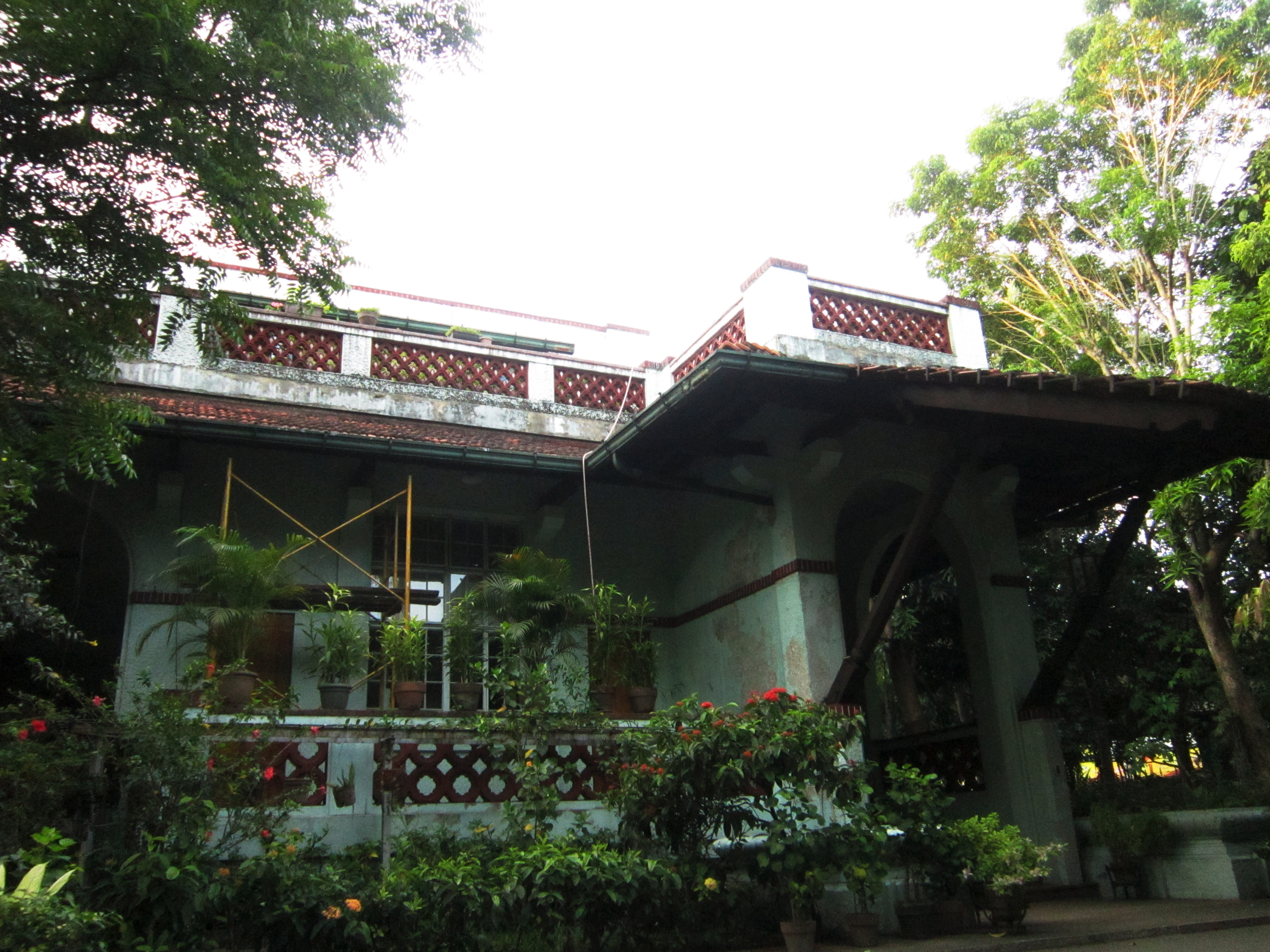 Own house of Don Tomas Mapua designed by himself.